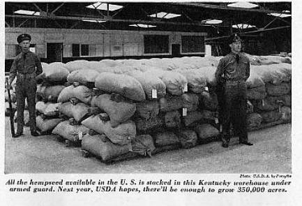 Two soldiers in a warehouse guarding pallets containing full burlap bags. Caption reads: "All the hempseed available in the U.S. is stacked in this Kentucky warehouse under armed guard. Next year, USDA hopes, there'll be enough to grow 350,000 acres." Possibly first published in Farm Journal and Farmer's Wife June 1942.